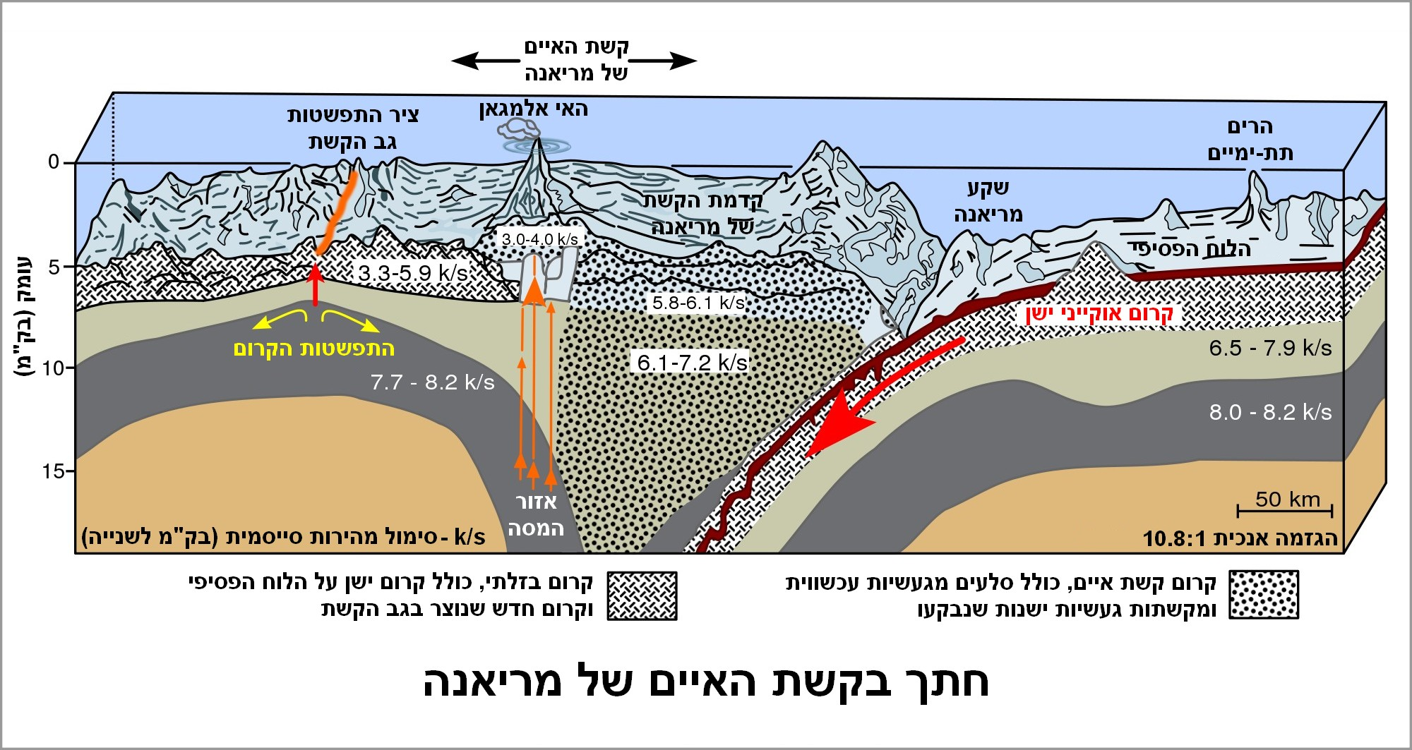 A cross-section of the Mariana Trench depicting main structures and features. For more details, please see the original source.